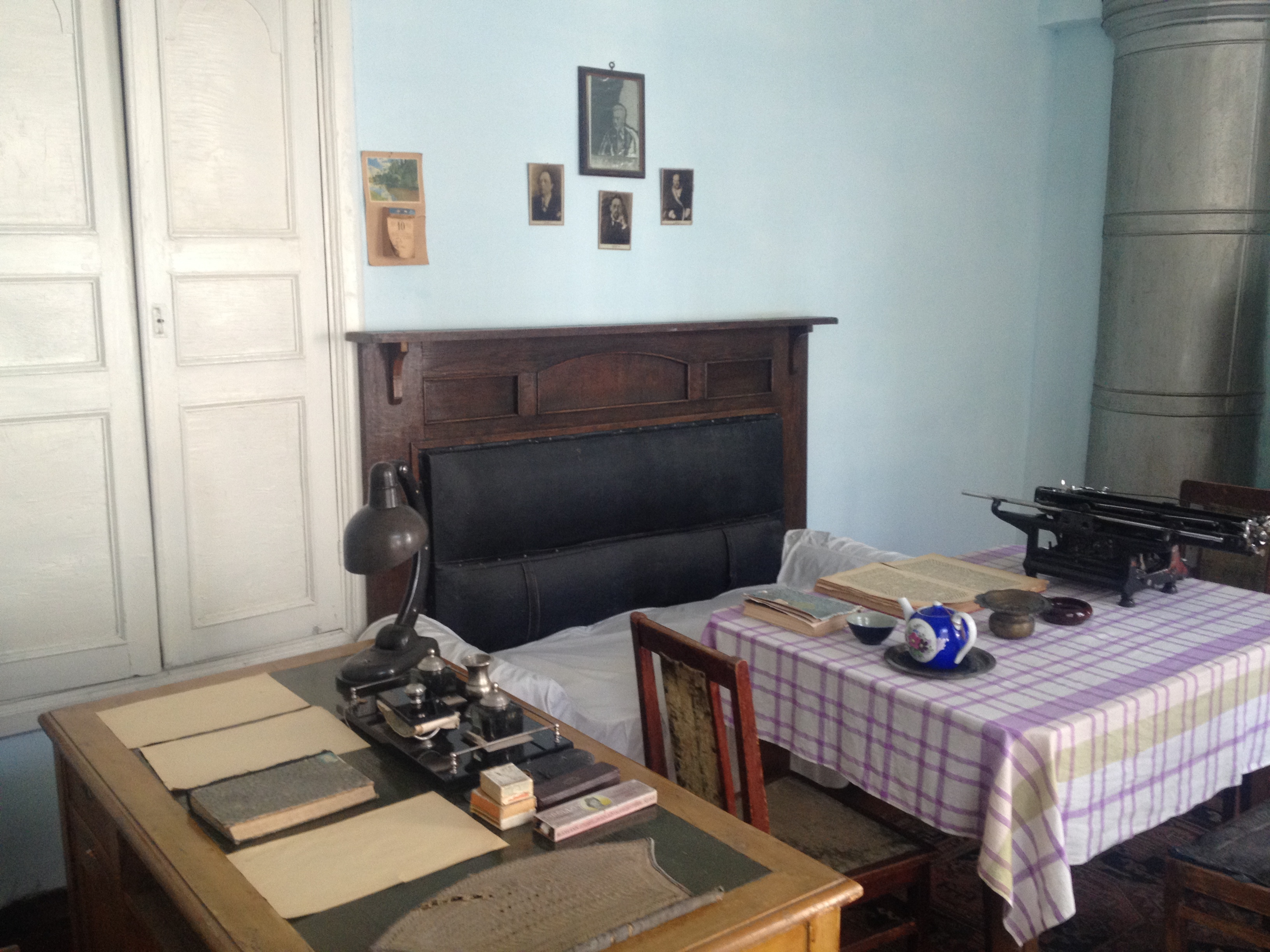 Study room in the home museum of Sadriddin Ayni (Samarkand)